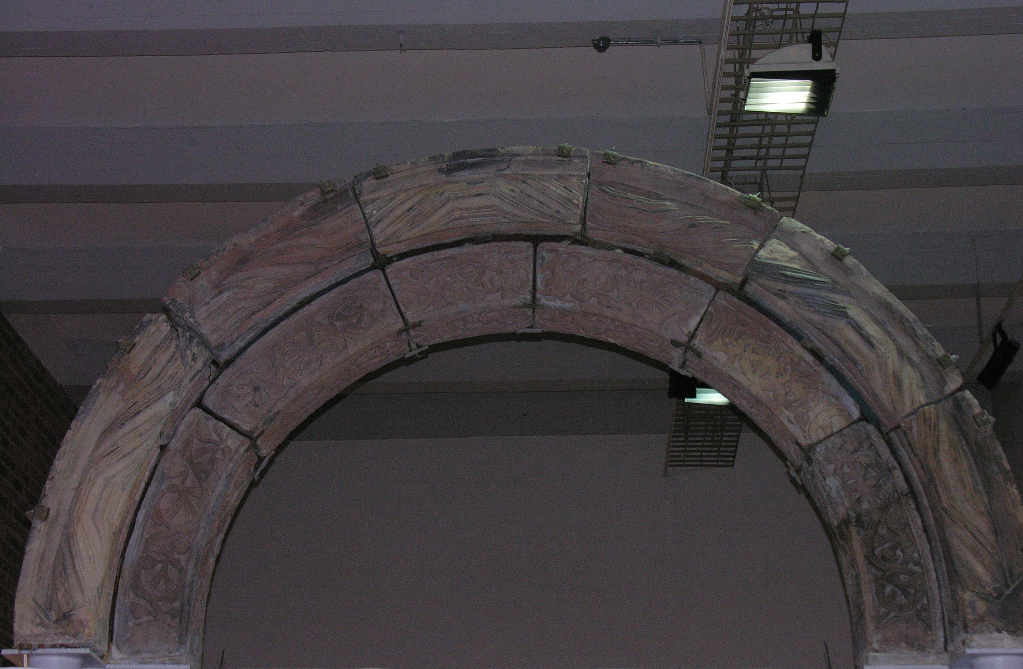 Archiwolta z portalu opactwa na Ołbinie